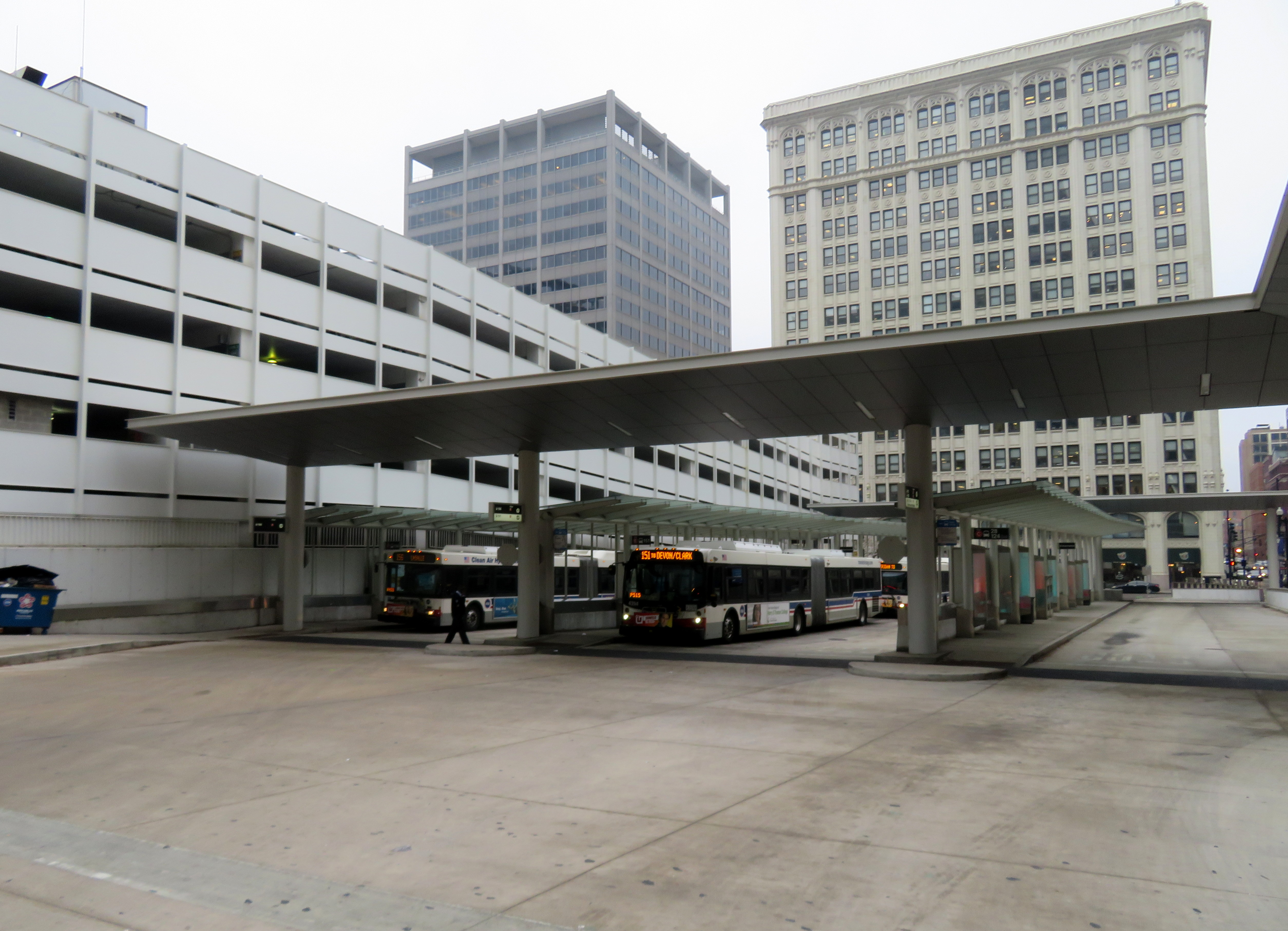 Union Station Transit Center in December 2018